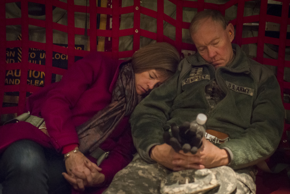 Chairman of the Joint Chiefs of Staff U.S. Army General Martin E. Dempsey and his wife Deanie get some rest while flying through Afghanistan.